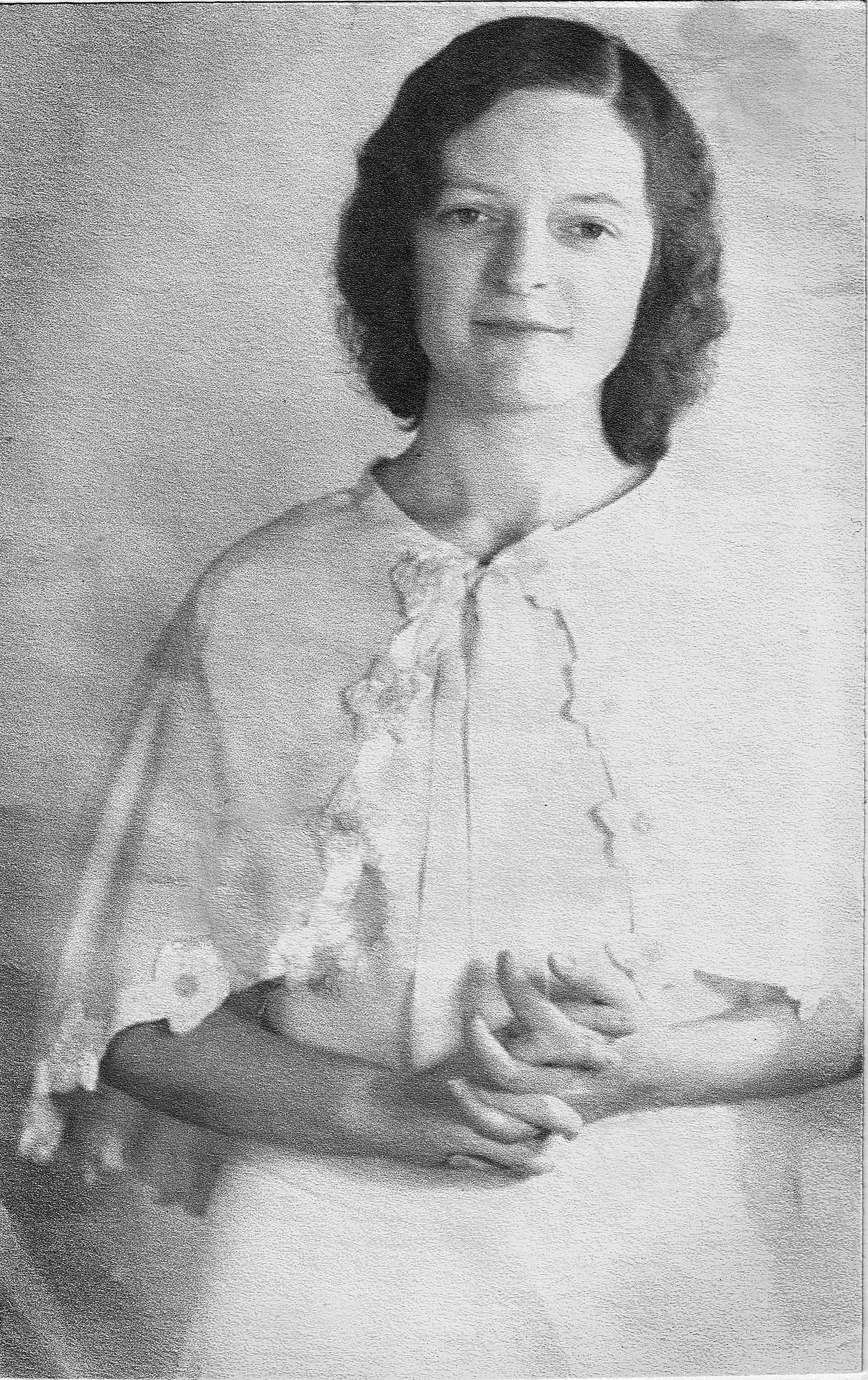 Flower at the age of 17 years. Her maiden name was Sechler.